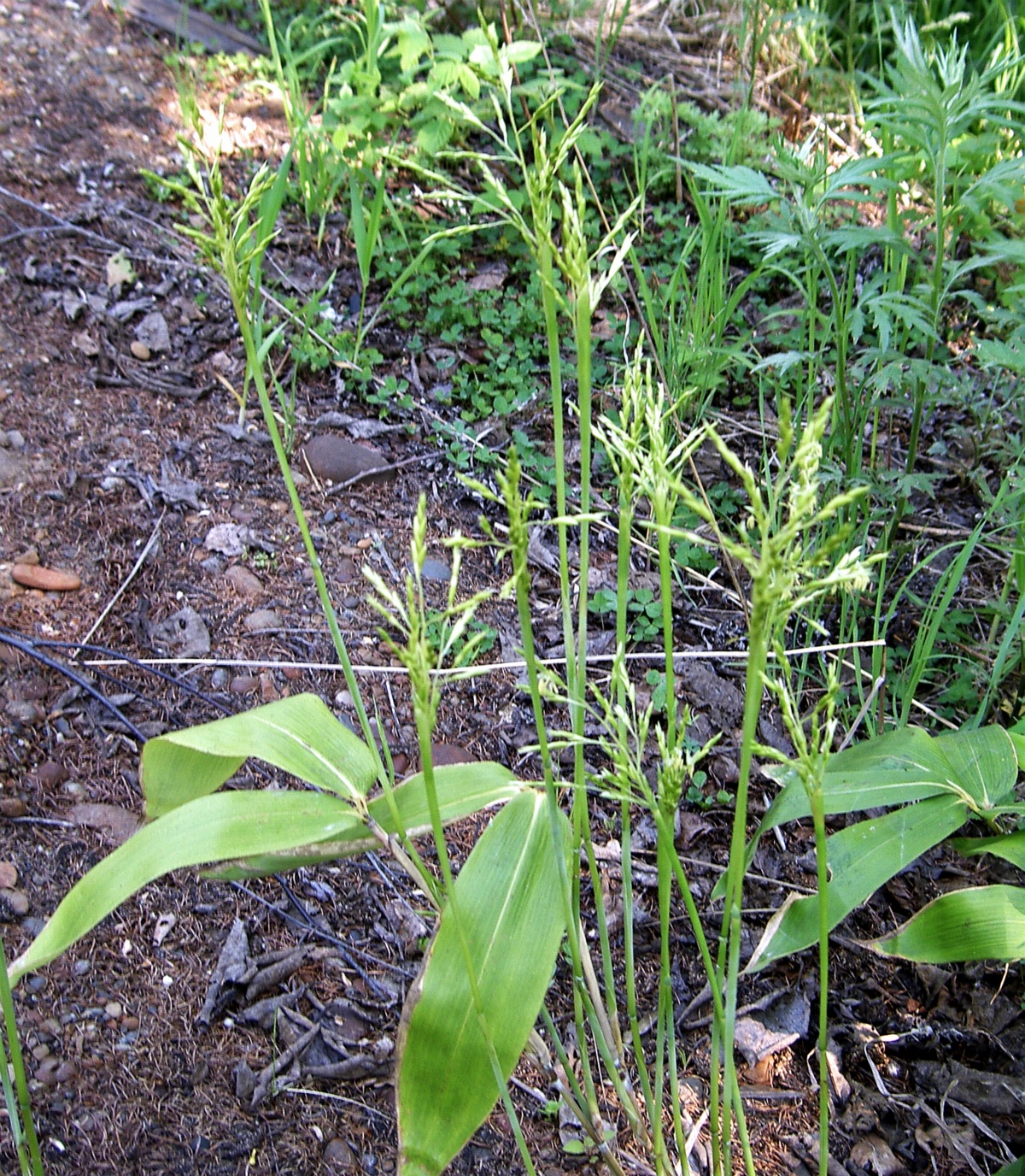 Sasa kurilensis — Kurile bamboo, flowering. In and endemic to Sakhalin Oblast, the Far Eastern Federal District of Russia. The most northern-growing bamboo in the world.